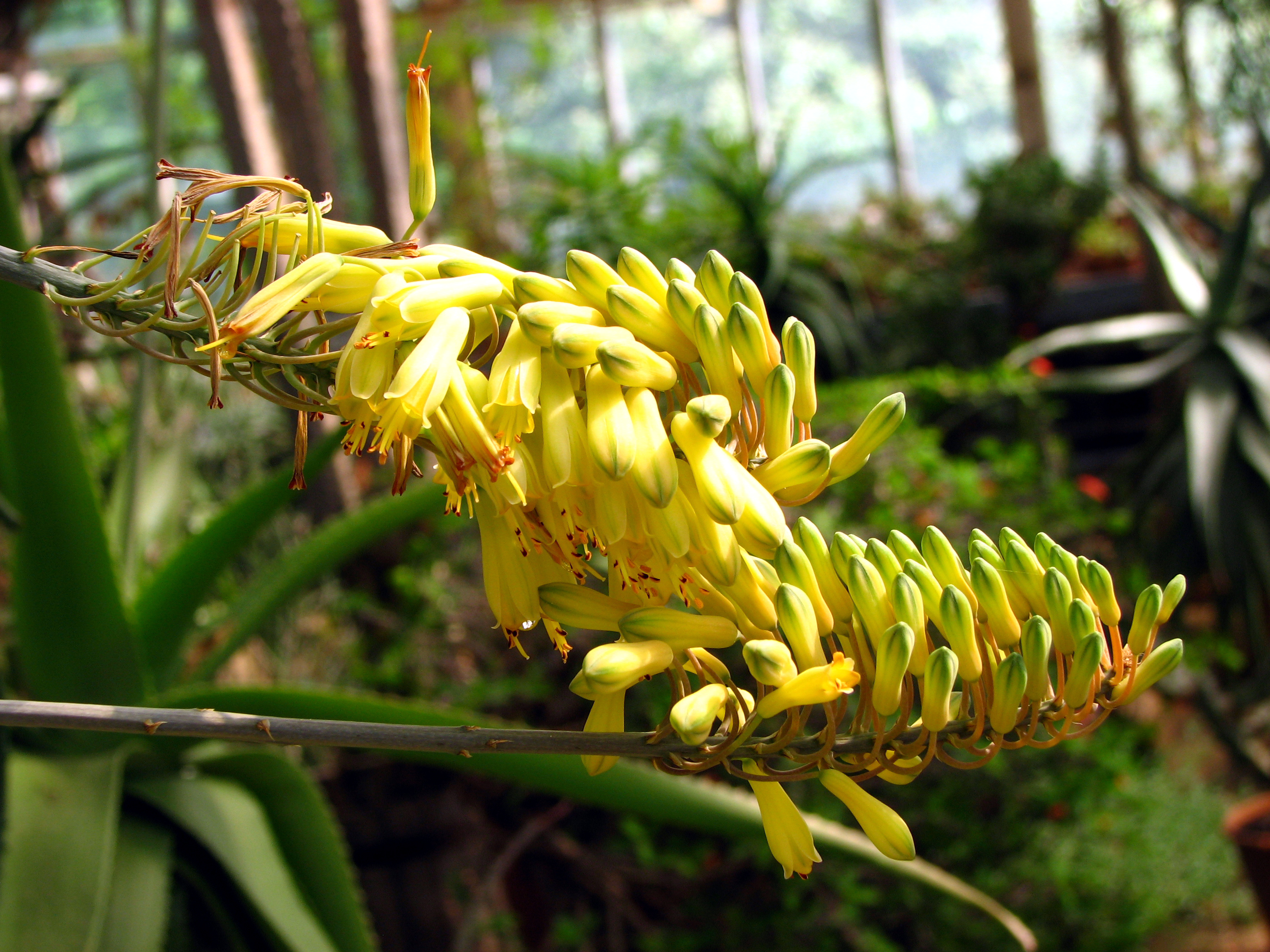 Greenhouses of the Botanical garden (Saint Petersburg). Aloe officinalis var. angustifolia